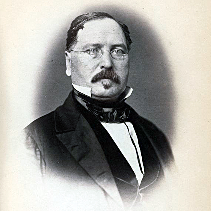 Thomas Fielder Bowie, US Representative from Maryland